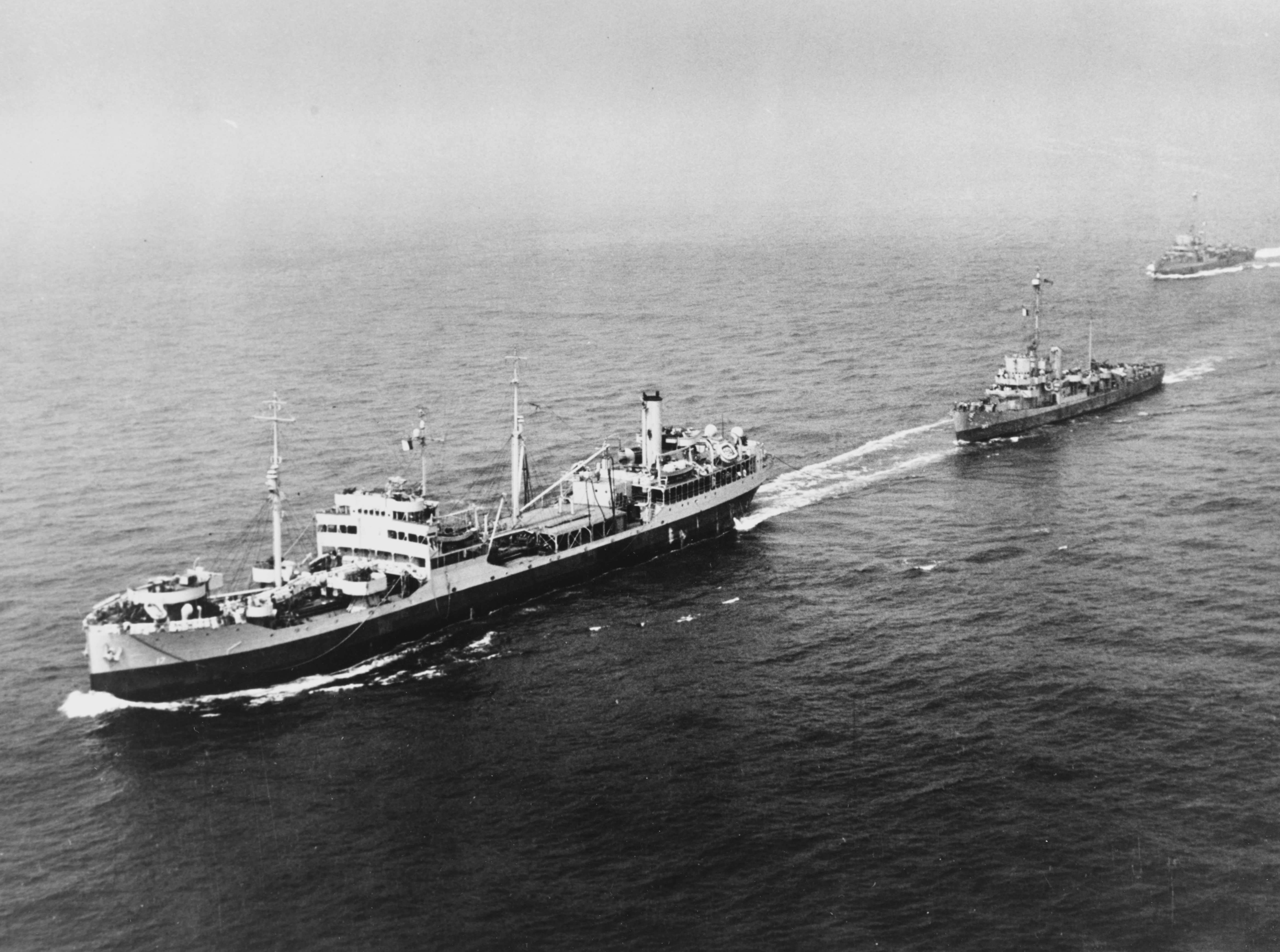 The U.S. Navy fleet oiler USS Mattole (AO-17) refuels the destroyer esccort USS Pride (DE-323) by the astern method, 17 August 1944. USS Newell (DE-322) is approaching from the far right.